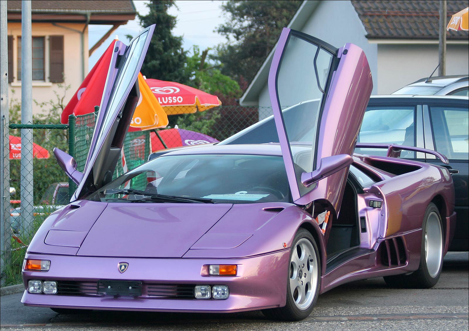 Lamborghini Diablo SE30